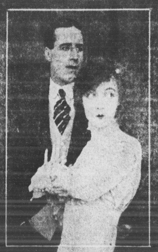 Lillian Gish and Howard Gaye in newspaper publicity for Diane of the Follies